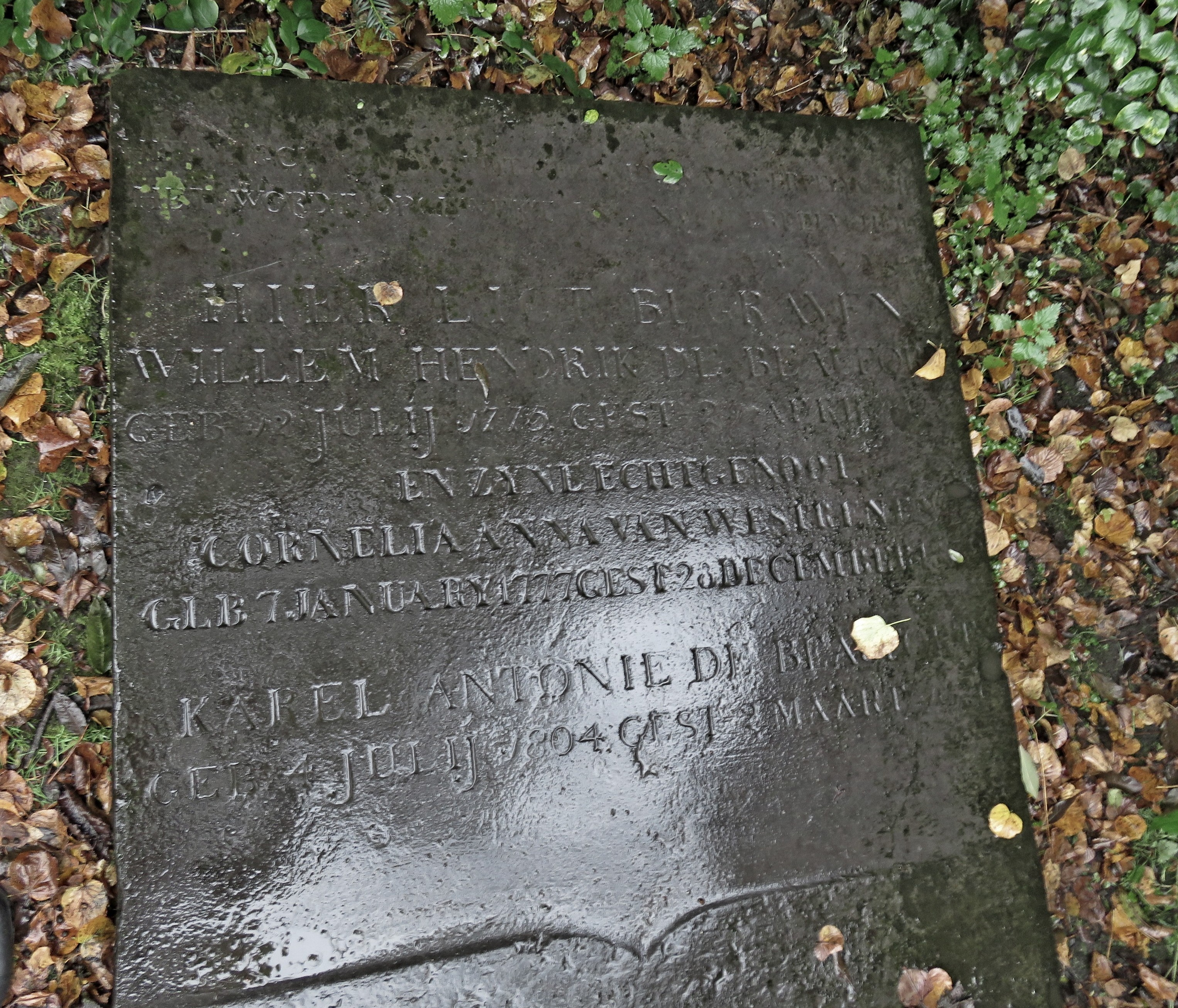 The gravestone of Willem Hendrik de Beaufort (1775-1829). Here he is buried with his wife and one of his children